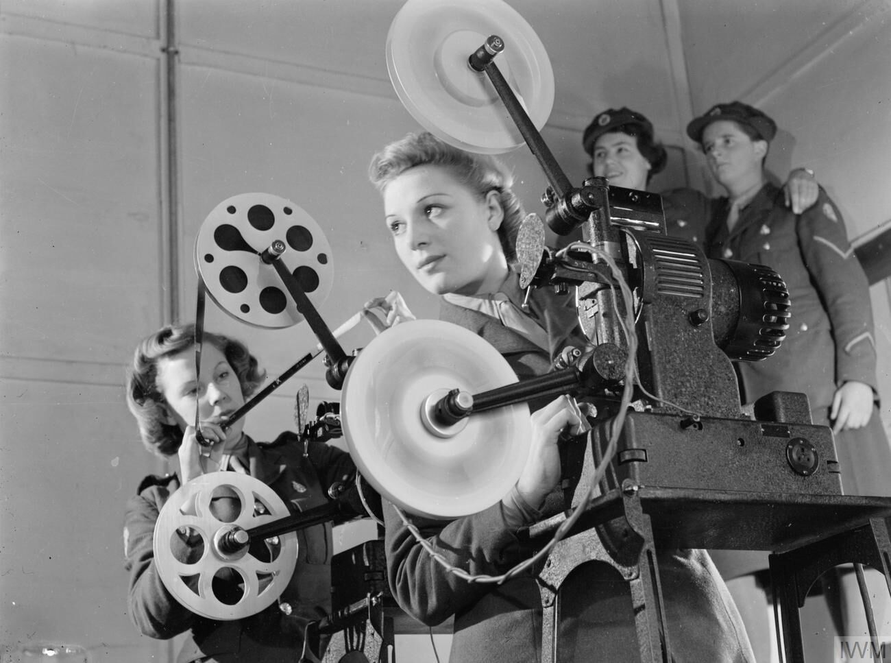 Ats Cine Projector Operators, Aldershot, Hampshire, England, UK, 1941 Two cine projectionists of the Auxiliary Territorial Service operate a 16mm De Vry Simplex Ampro projector at the field stores, Aldershot. Behind them, two more ATS girls stand in the corner of the room to watch the projection.